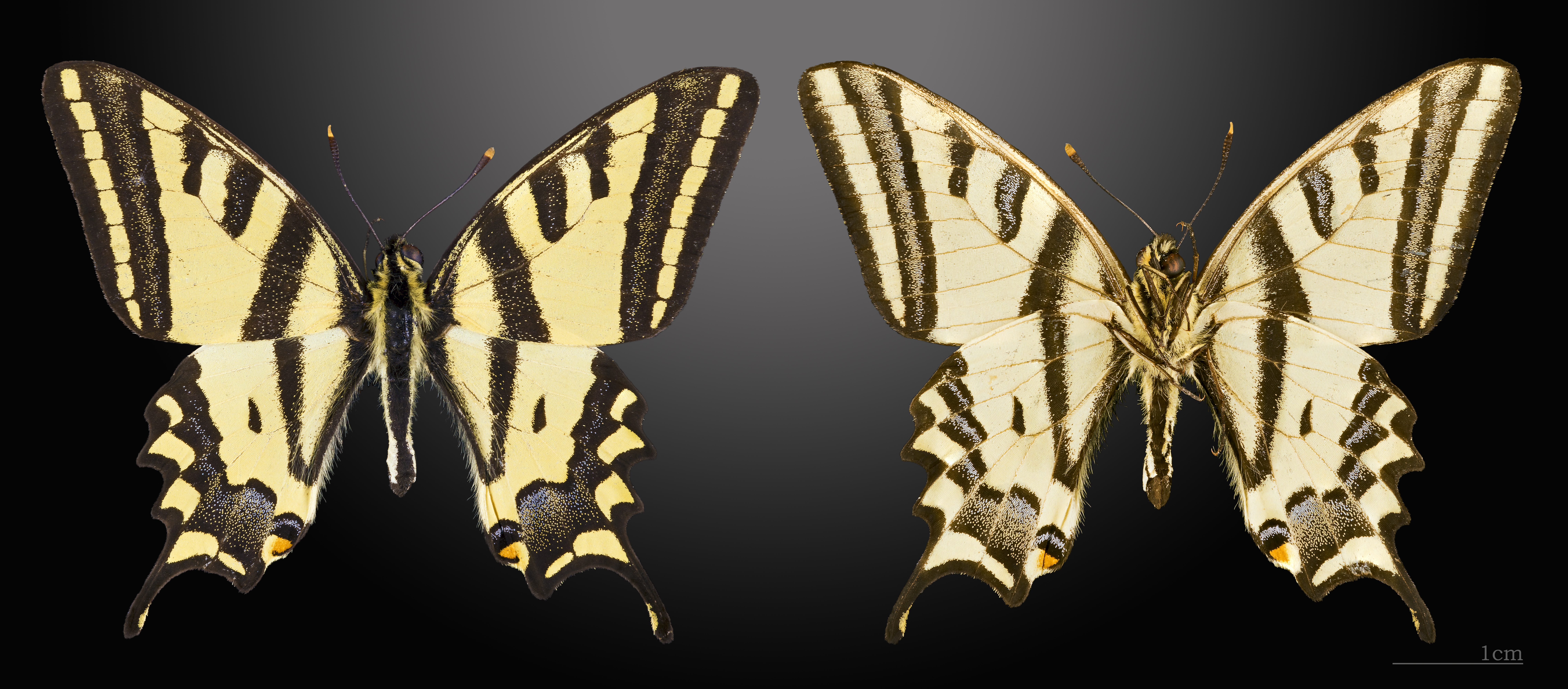 Southern Swallowtail - Two views of same specimen